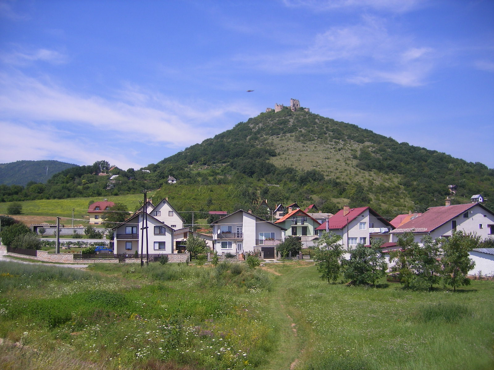 Turňa nad Bodvou - view of the castle